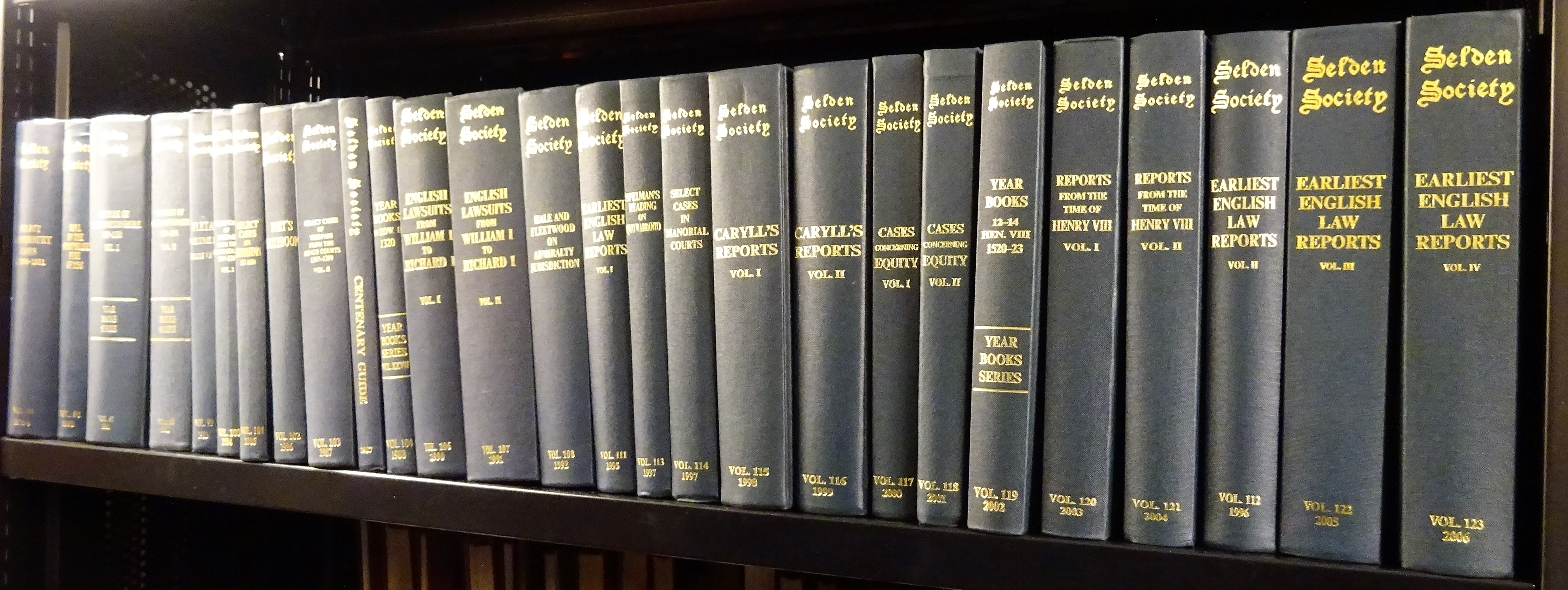 Selden Society volumes on library shelf.